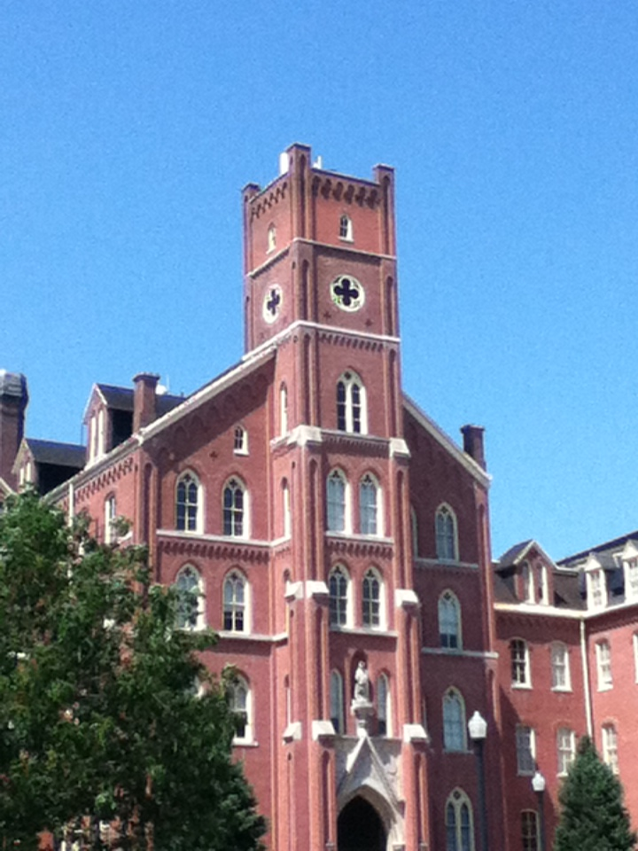 Francis Hall is probably the most widely known structure on the Quincy University campus. The building is even featured prominently on the University's logo.